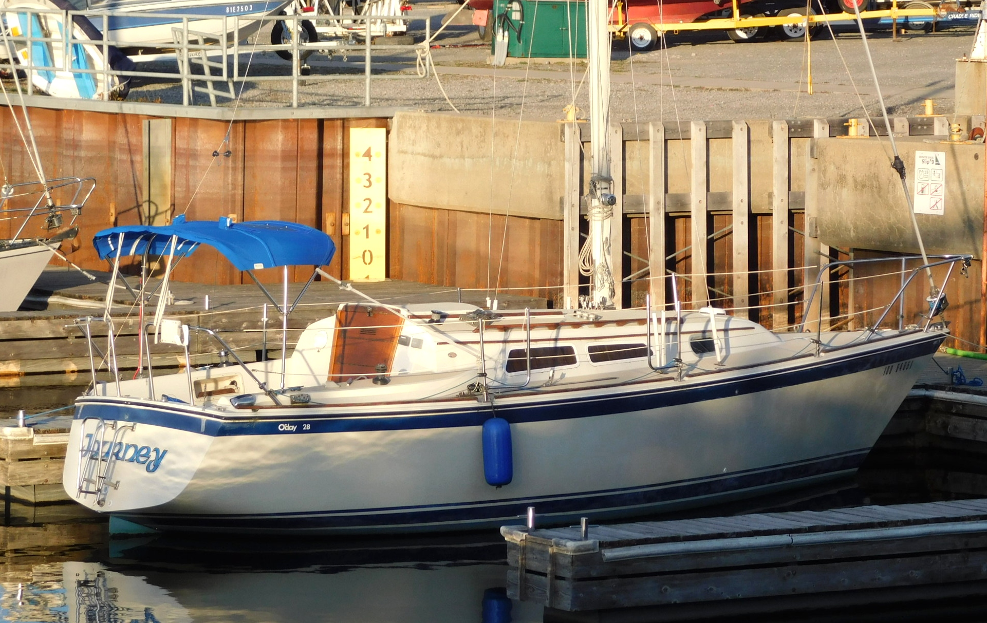 A O'Day 28 sailboat Journey.